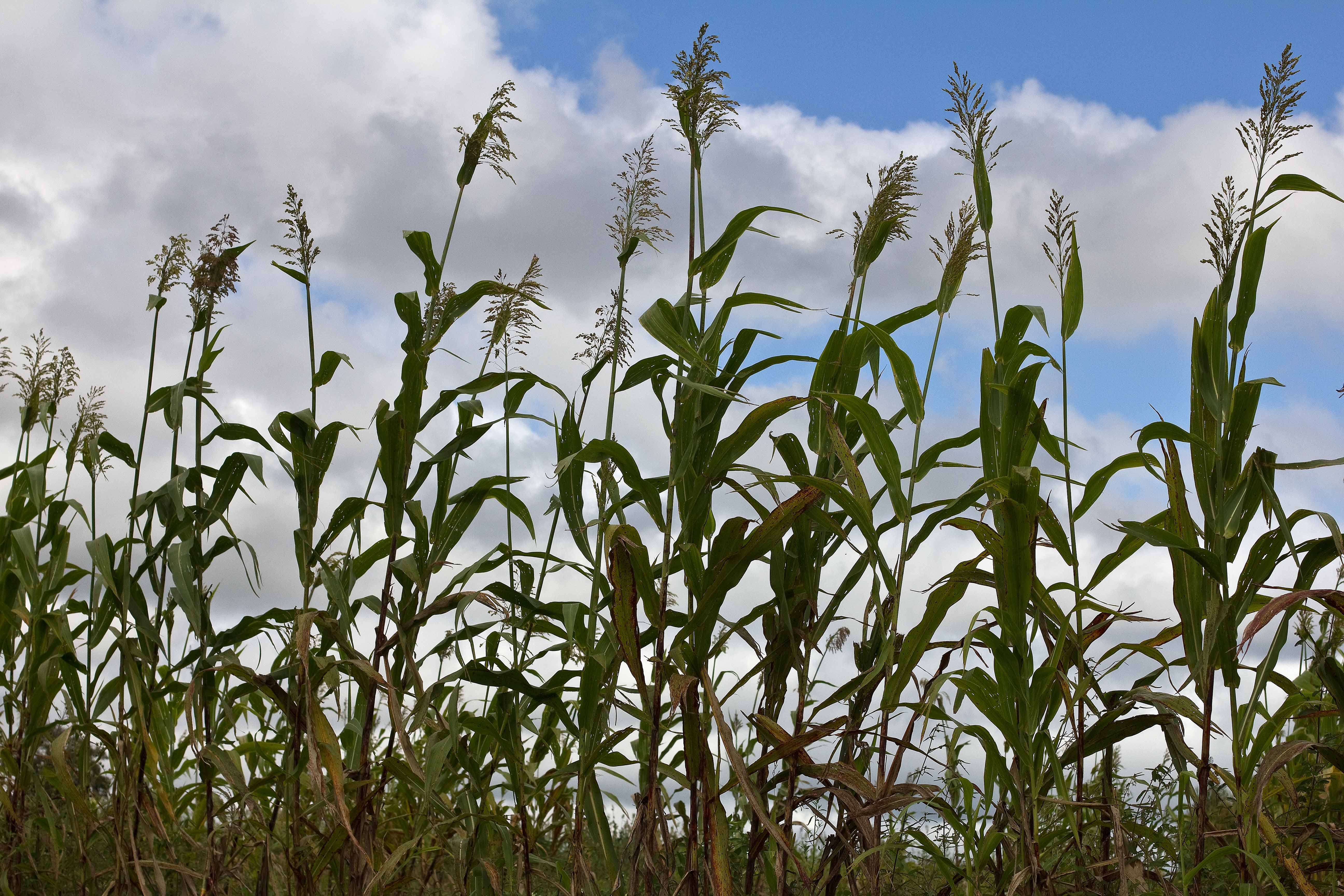 A local variety of sorghum in Malawi. Despite the lower yields, farmers grow local varieties of sorghum because the relatively weak heads do not support the weight of the birds that eat the grain.